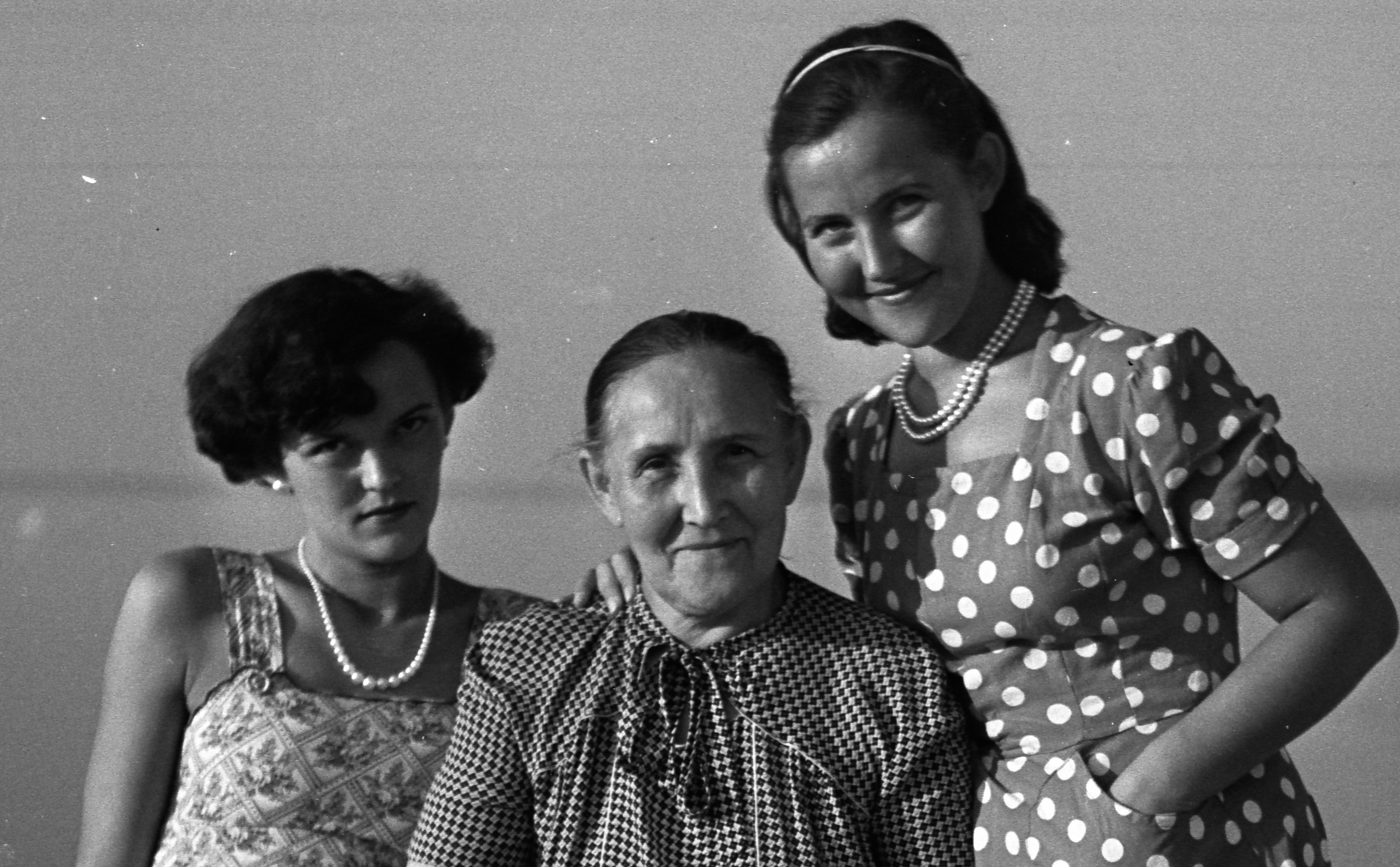 Flóra Kádár with her mother, Flóra Ohr and her twin sister, Sára Kádár